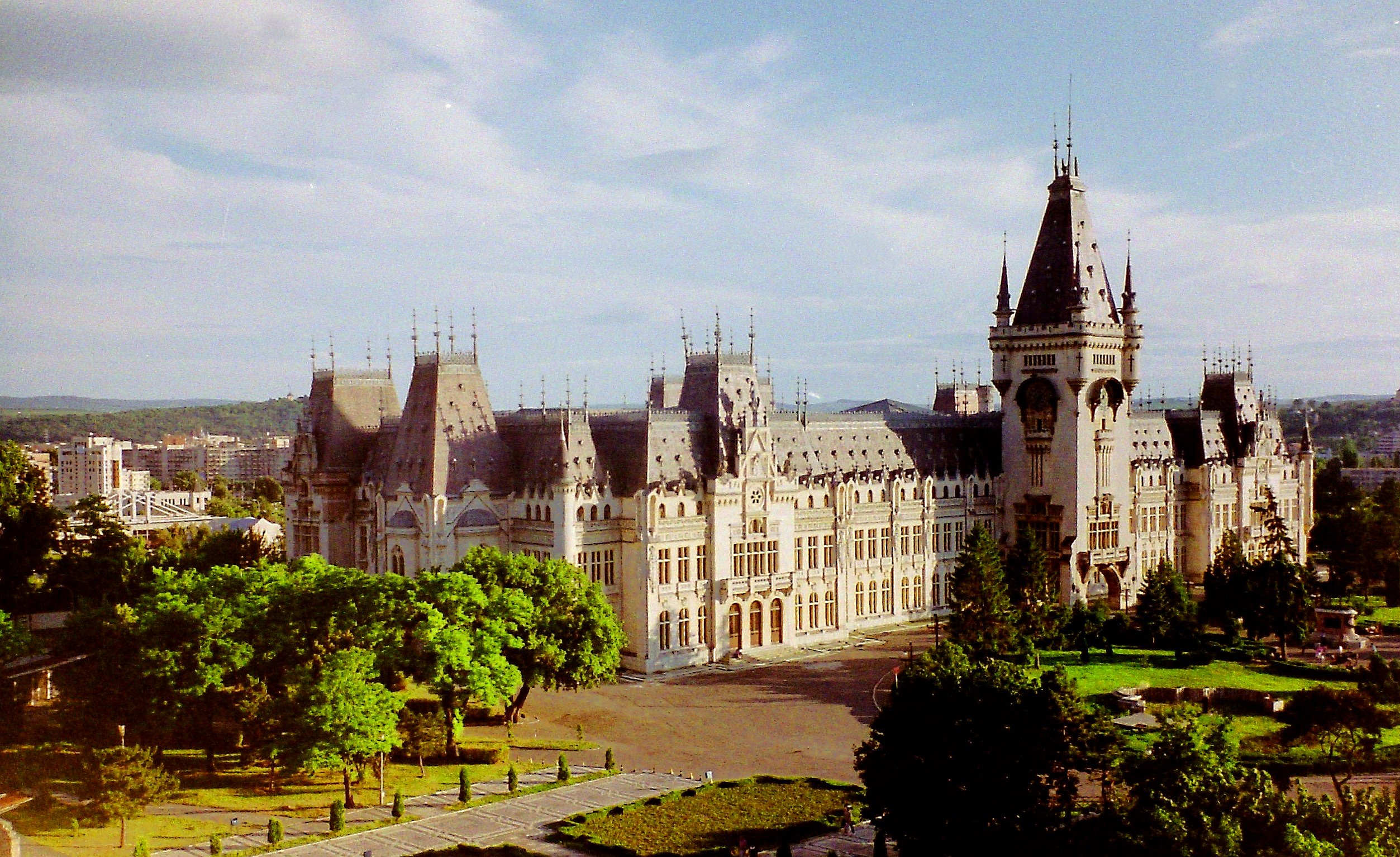 The Palace of Culture (Romanian: Palatul Culturii) is an edifice located in Iaşi, Romania. 01